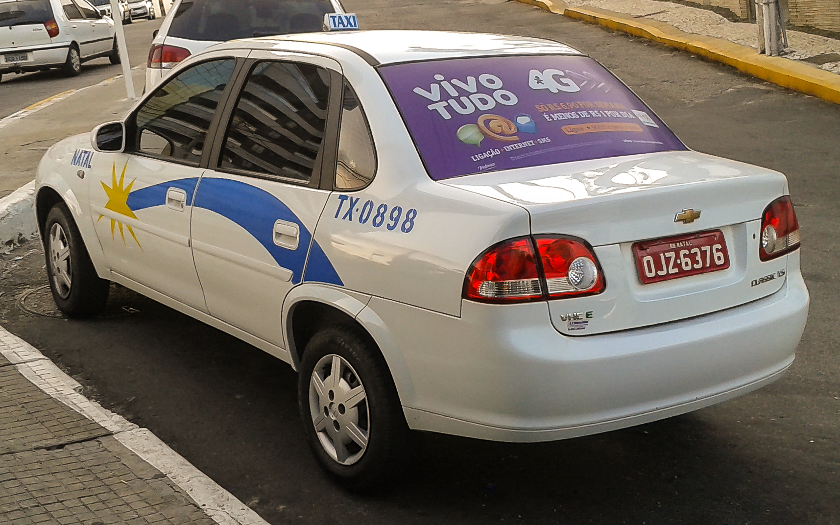 Chevrolet Classic LS as Taxi